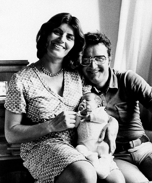 Italian singer-songwriter and actor Jimmy Fontana (Enrico Sbriccoli) sitting and smiling beside his wife Leda and his son Roberto. Treia.